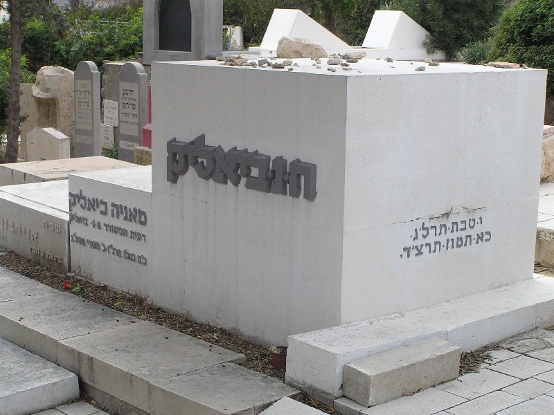 Tomb of Hebrew poet in Trumpeldor cemetery in Tel Aviv February 2006, by Eman